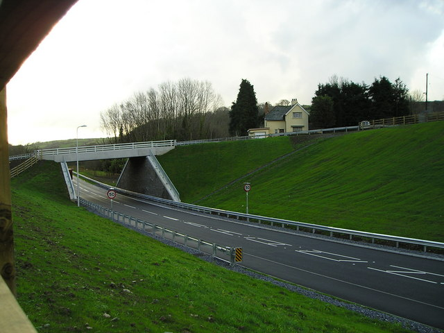 Stationmaster's house Before the Llandysul bypass was built this was the track of a closed railway line, Llandysul station was just beyond the bridge and the stationmaster lived close by.